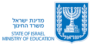 The logo of the Ministry of Education of Israel.